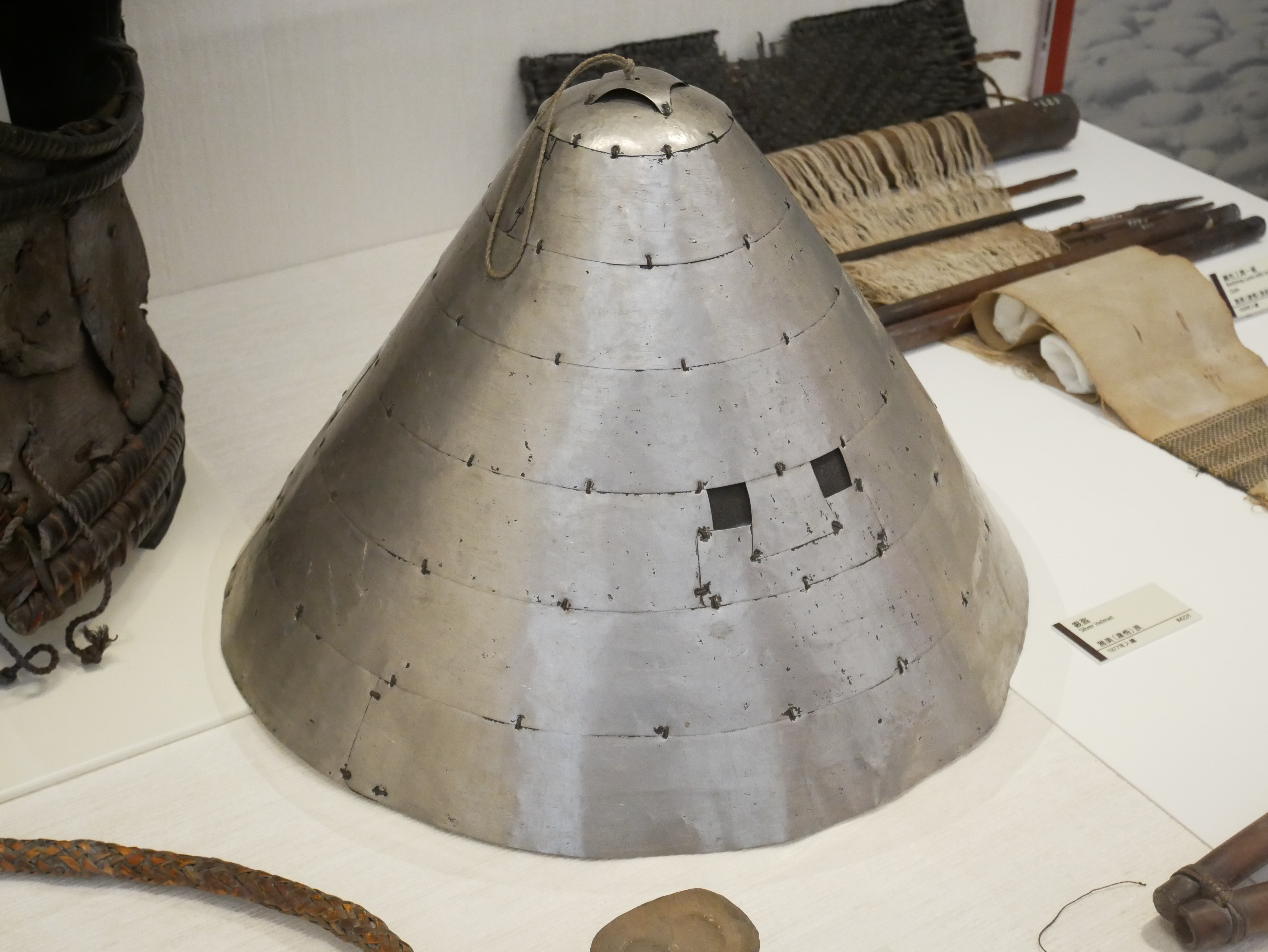 徐瀛洲所製錫製雅美族銀盔模型（1977年10月6日入藏國立臺灣大學），臺北市大安區學府次分區學府里